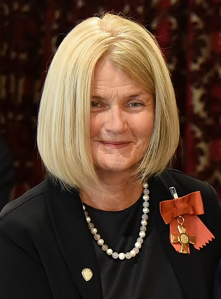 Lesley Murdoch, after her investiture as ONZM, for services to sport, on 18 October 2016